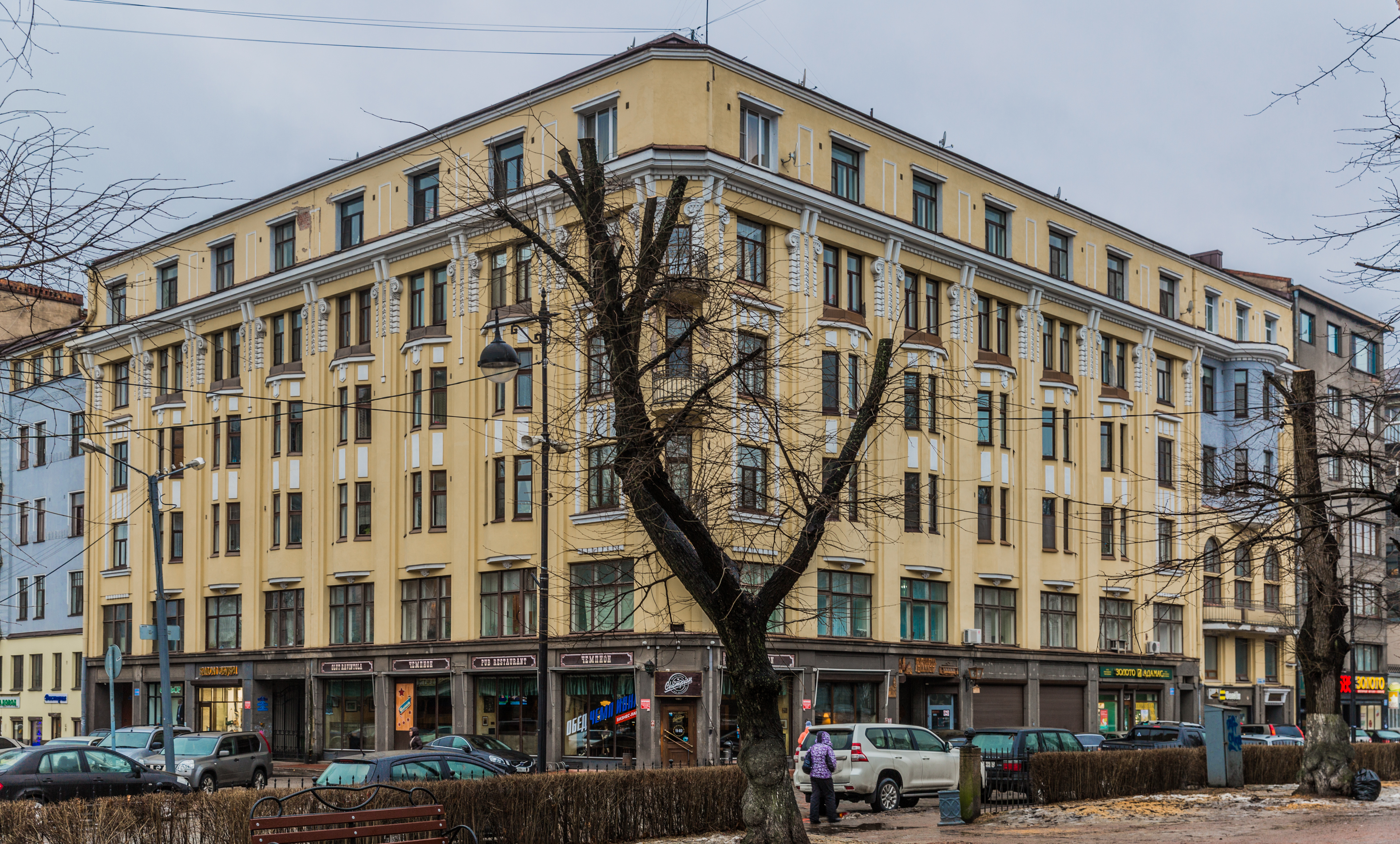 Vyborg, Finnish architecture, architect Leander Ikonen Torkkelinkatu 18